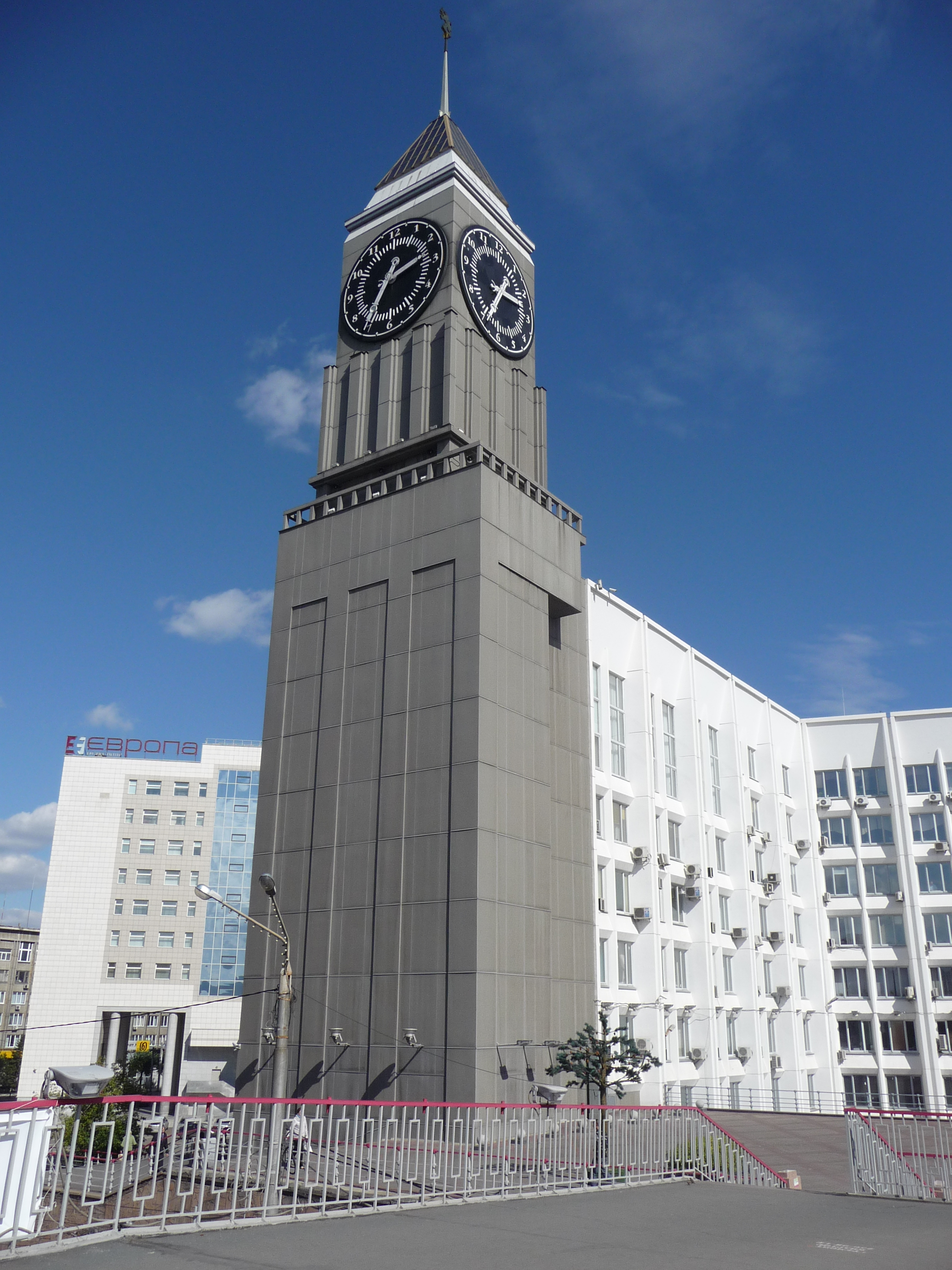 clock tower, city administration building